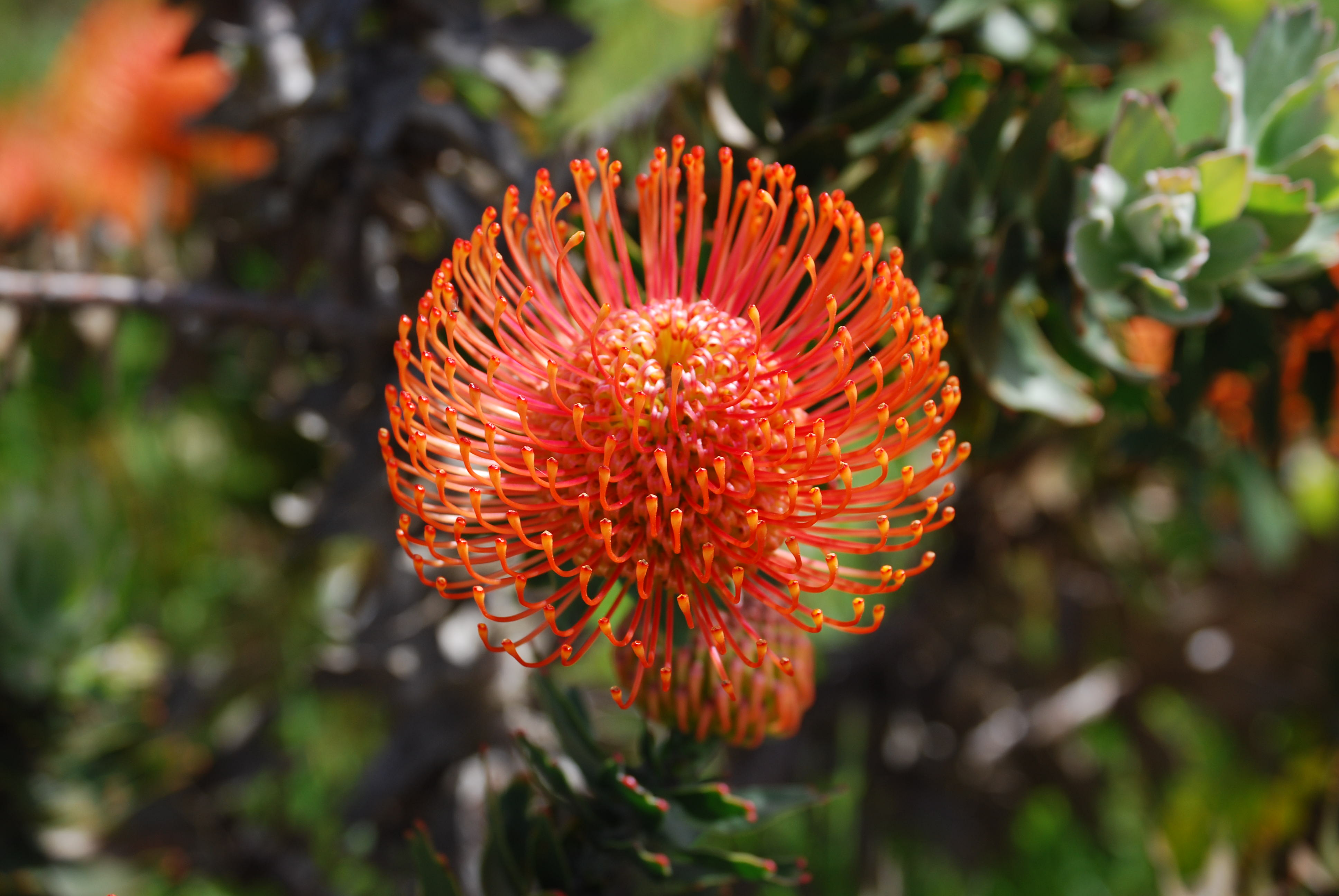 Leucospermum cordifolium red